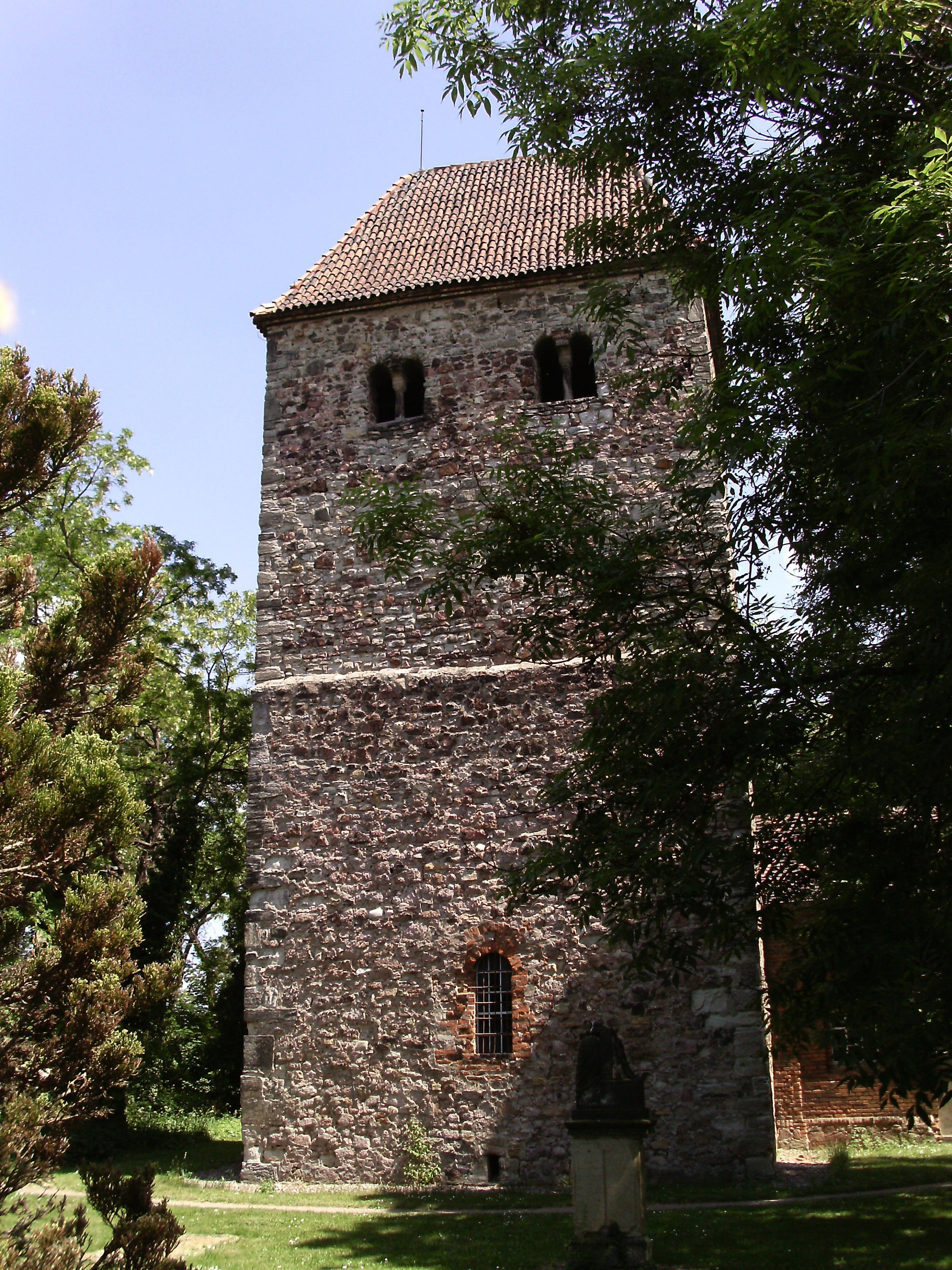 St. Gertrude's Church in Reideburg (Halle/Saale) from the west